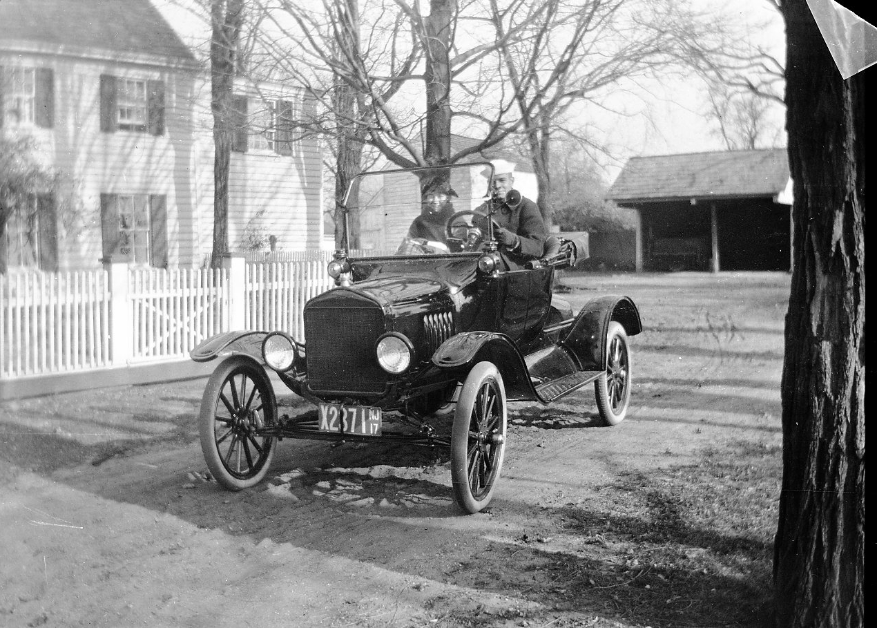 Thanks to Basic Transporter for the identification. Camp Dix, NJ 1917-18. This Farmhouse and farm became part of Camp Dix in 1917 the year Camp Dix was established. 3x4 inch celluloid negative. From the collection of negatives of an unknown photorapher.